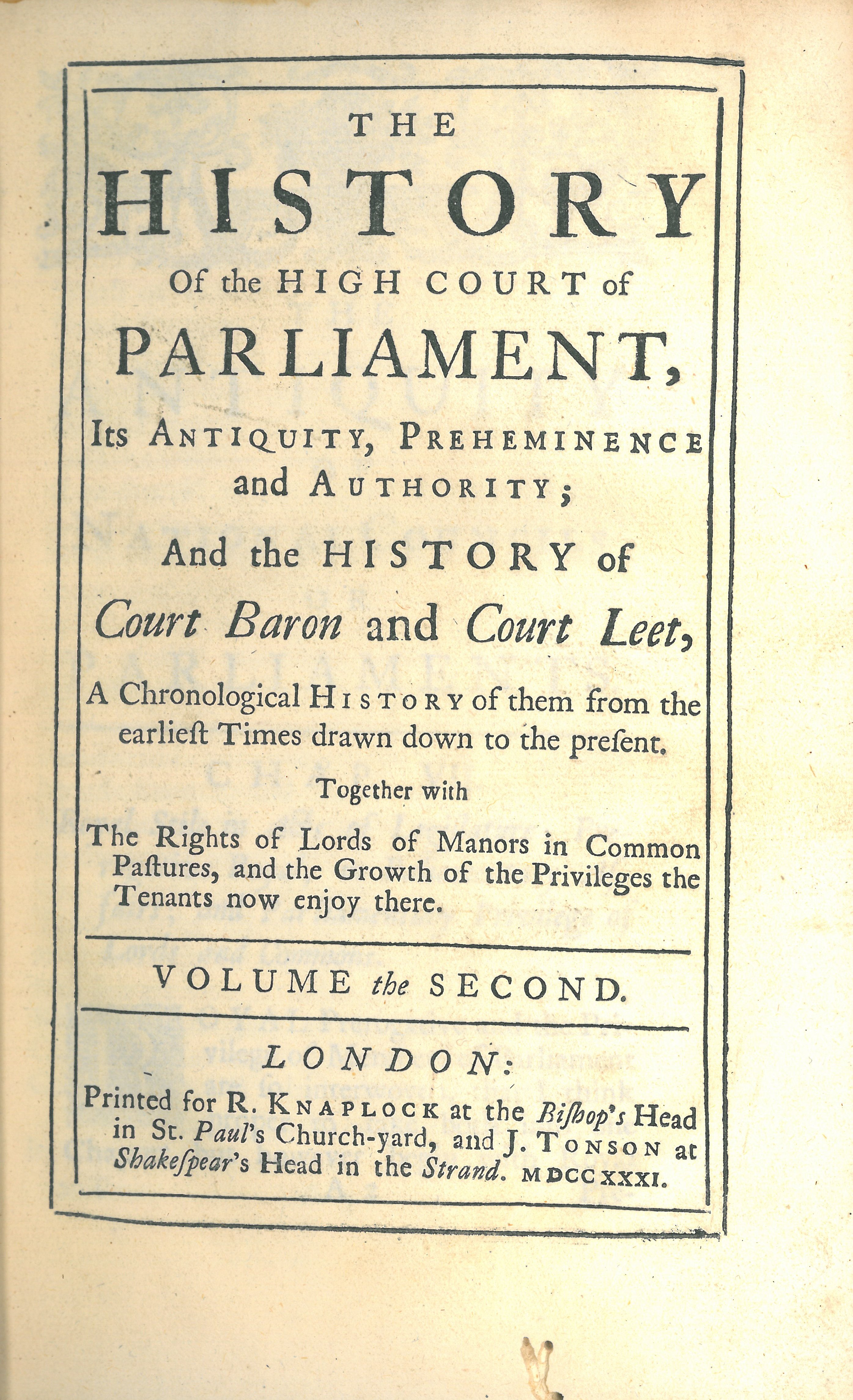 The title page in volume 2 of Thornhagh Gurdon (1731) The History of the High Court of Parliament, its Antiquity, Preheminence and Authority; and the History of Court Baron and Court Leet, a Chronological History of Them from the Earliest Times Drawn Down to the Present. Together with the Rights of Lords of Manors in Common Pastures, and the Growth of the Privileges the Tenants Now Enjoy There, London: Printed for R. Knaplock at the Bishop's Head in St. Paul's Church-yard, and J[acob] Tonson at Shakespear's Head in the Strand OCLC: 5755818.